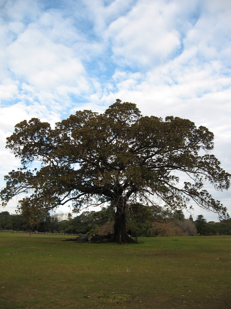 Photograph of a large fig tree taken at Centennial Park in Sydney, NSW, Australia